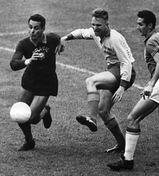 Brazilian goalkeeper Gilmar (left) faces the swedish Agne Simonsson. On the right side, brazilian defender Orlando Peçanha.